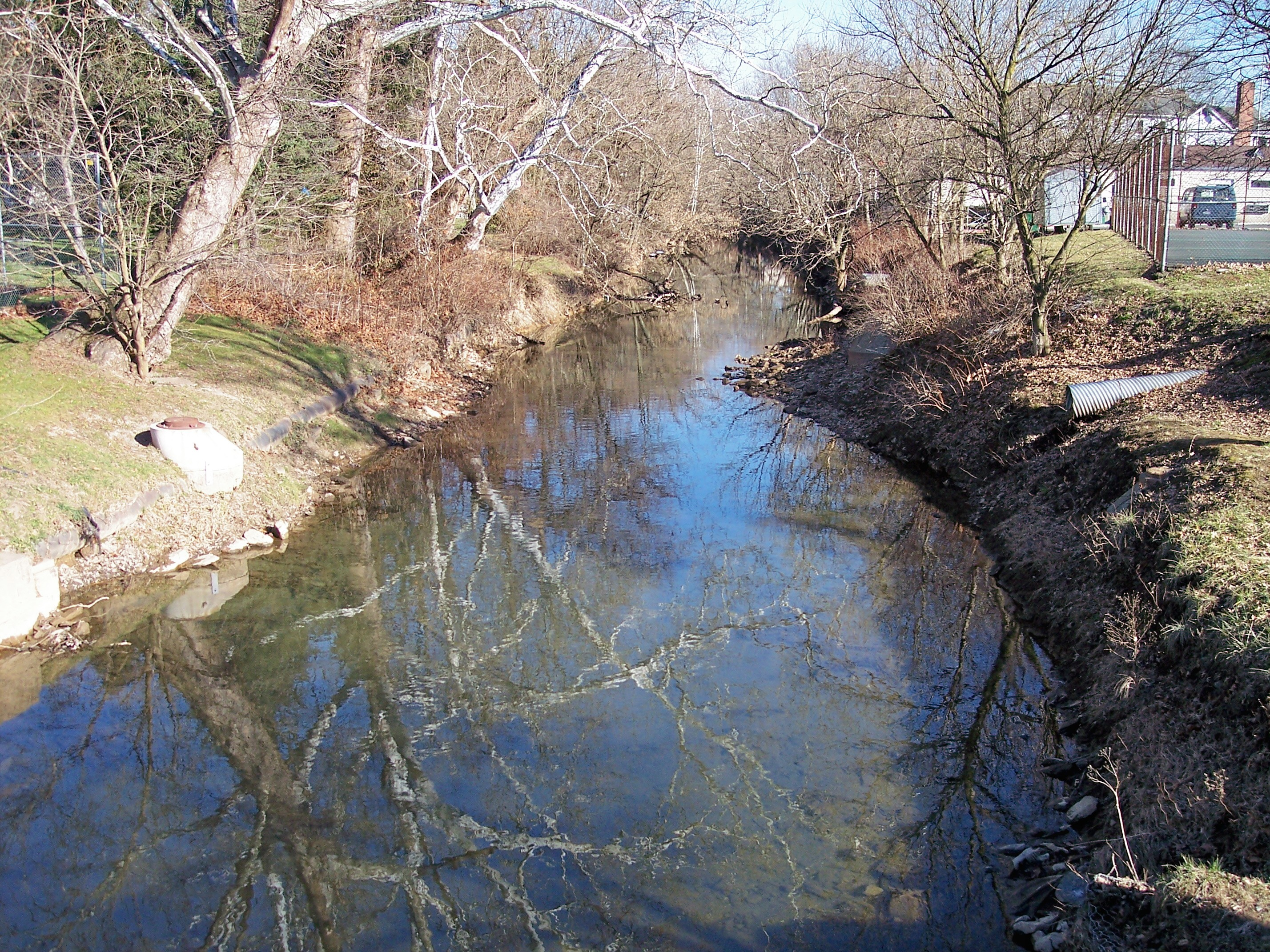 Simpson Creek as viewed upstream in Bridgeport, West Virginia